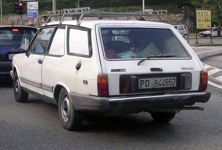 The Fiat Marengo was Fiat's diesel engined commercial version of its medium family estate car: the first Marengo was based on the Fiat 131. The followeing editions of the Marengo were based on the Regata, on the Tempra and on the Marea. There was also a van version of the Fiat Stilo, the Marea's replacement, but it never carried the Marengo name.